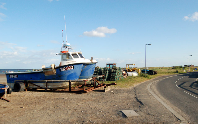 Fishing boat beside the road in Boulmer